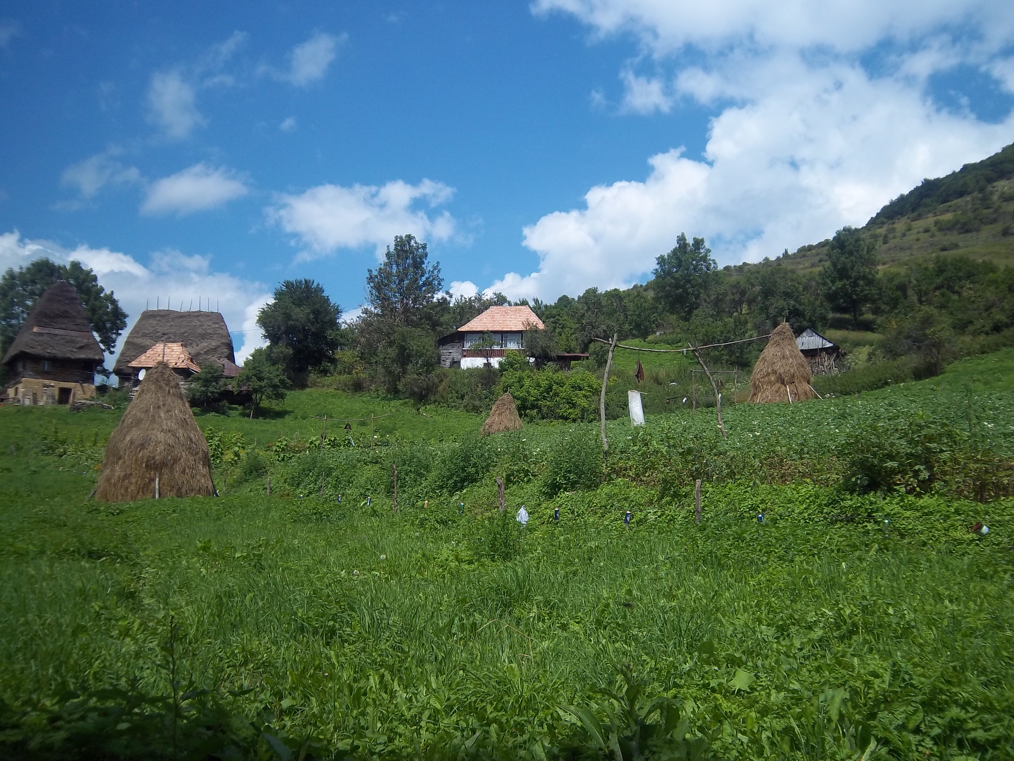 Valea Poienii